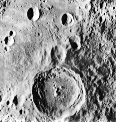 LO2 - Frame No. 2033 from the Lunar & Planetary Institute.